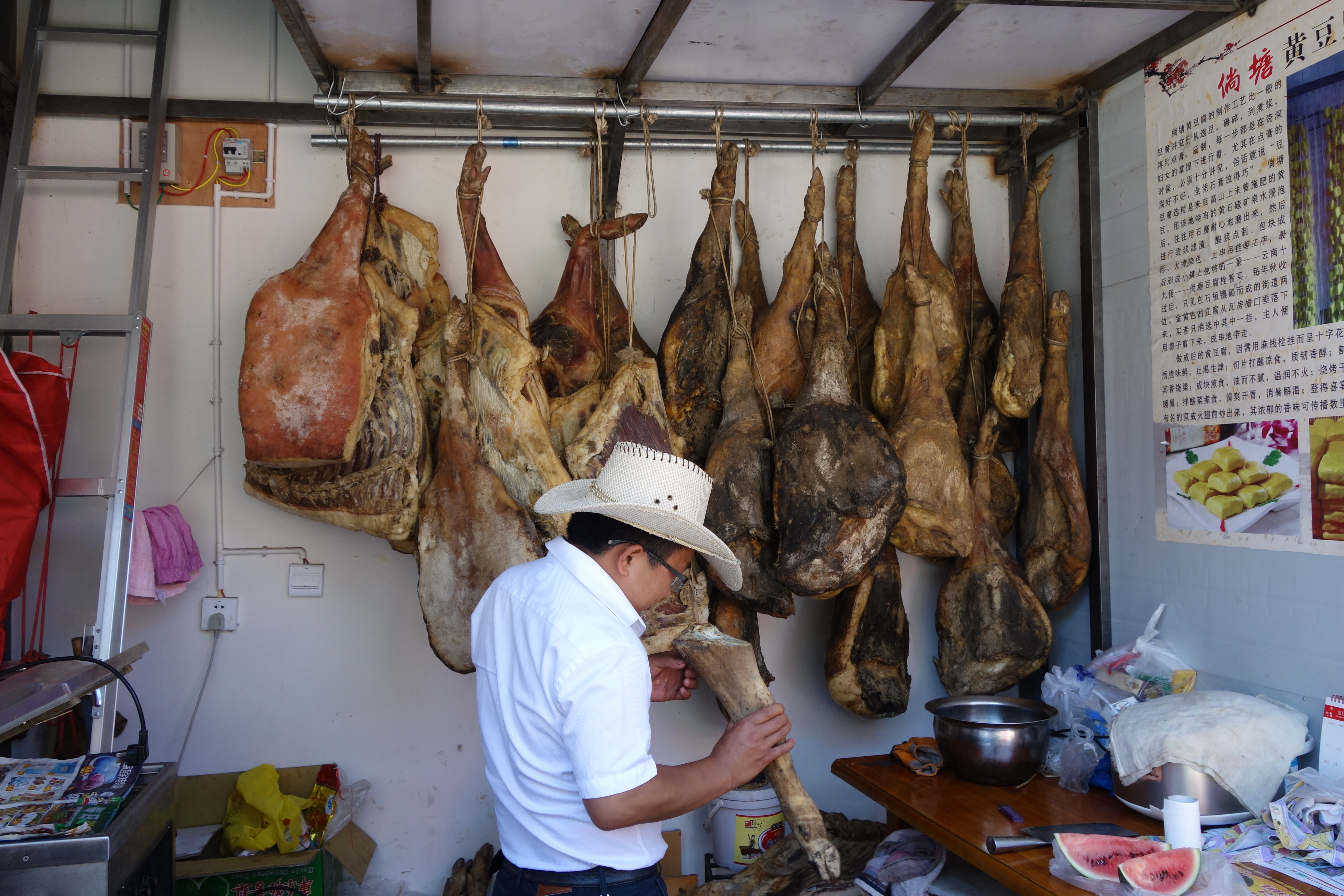 Yunnan (Xuanwei region) is famous for its hams. Though I'd be wary of buying a ham from a guy wearing a cowboy hat in Lijiang lol.